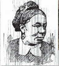 This is a drawing of Harriet Bell Hayden, widow of Lewis Hayden. The Hayden's were famous abolitionists that used their house in Boston, MA as a place of refuge for escaping slaves.